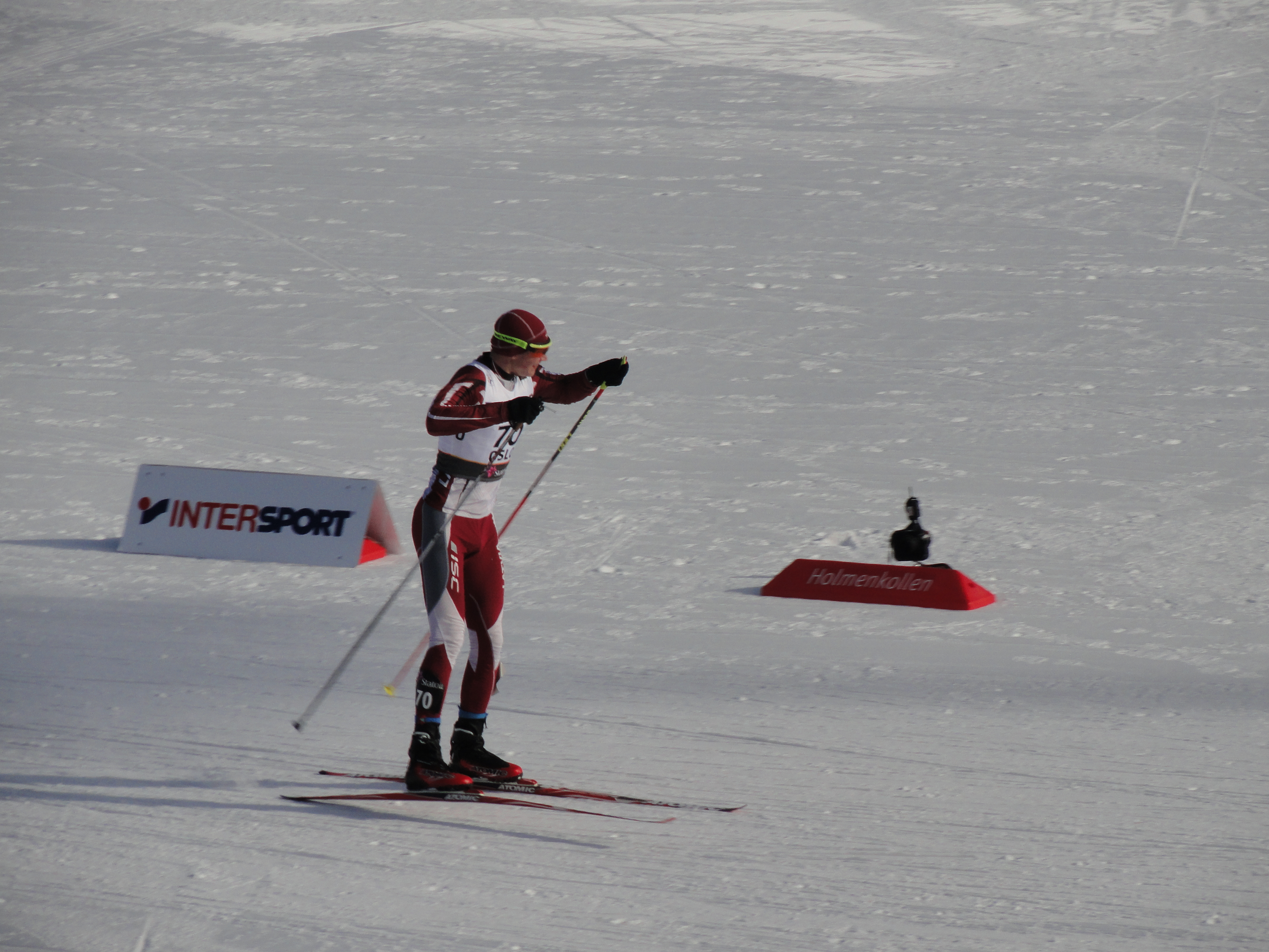 Picture of Arvis Liepiņš in Oslo 2011